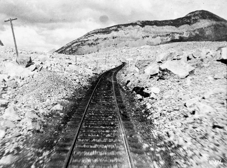 C.P. Railway showing landslide, Frank, Alta.